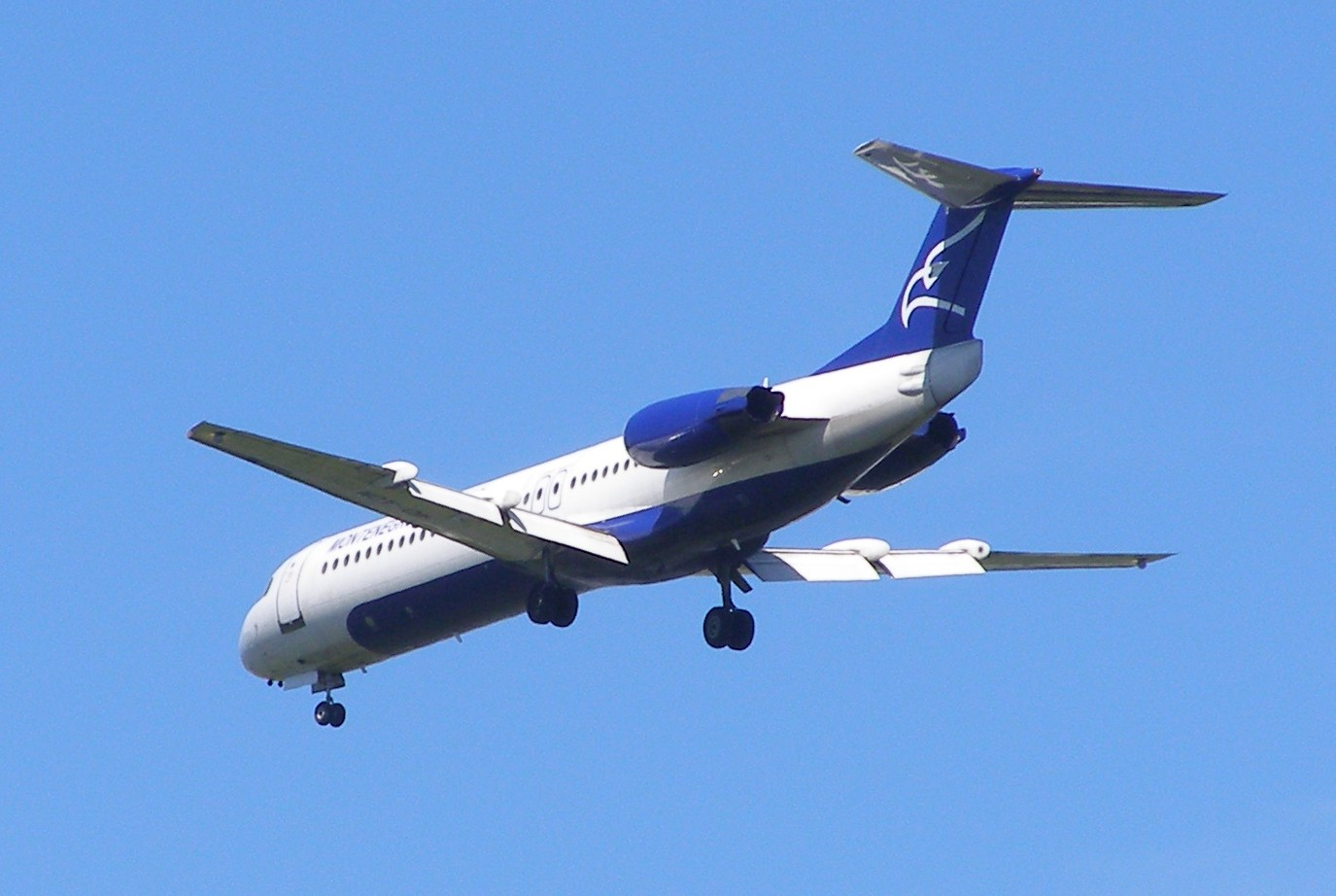 Fokker 100 registered 4O-AOM of Montenegro Airlines on approach to London Gatwick Airport